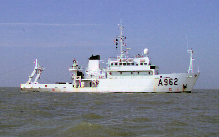 The RV Belgica (A962)